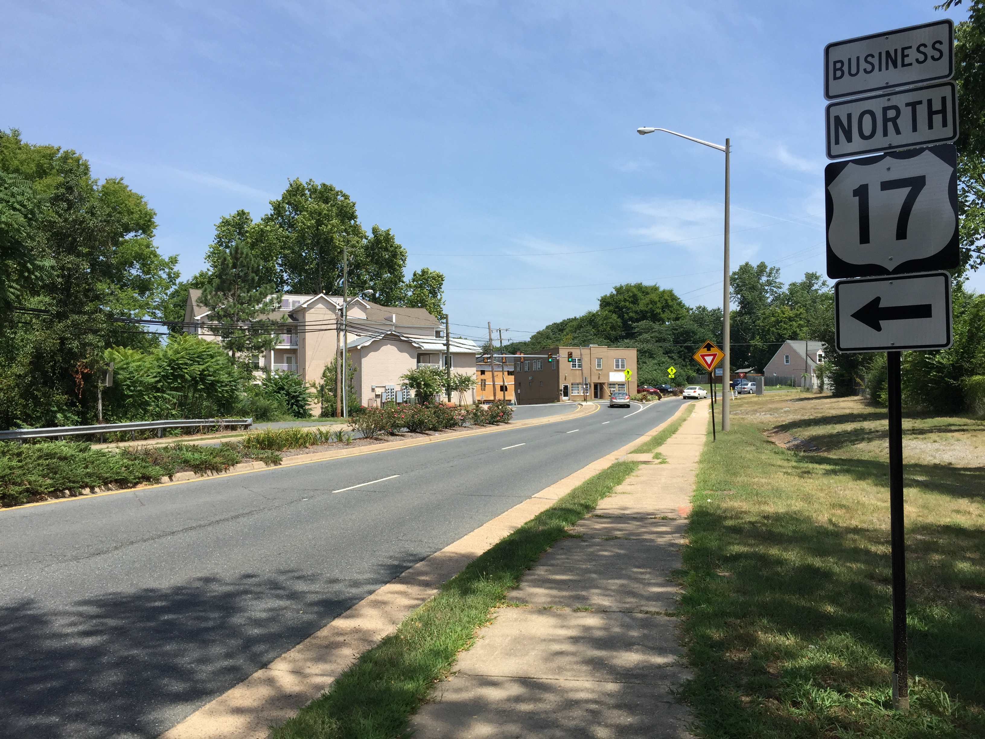 View north along U.S. Route 17 Business and Virginia State Route 2 (Dixon Street) just north of Virginia State Route 3 (Blue and Gray Parkway) in Fredericksburg, Virginia